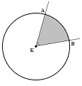 Central angle